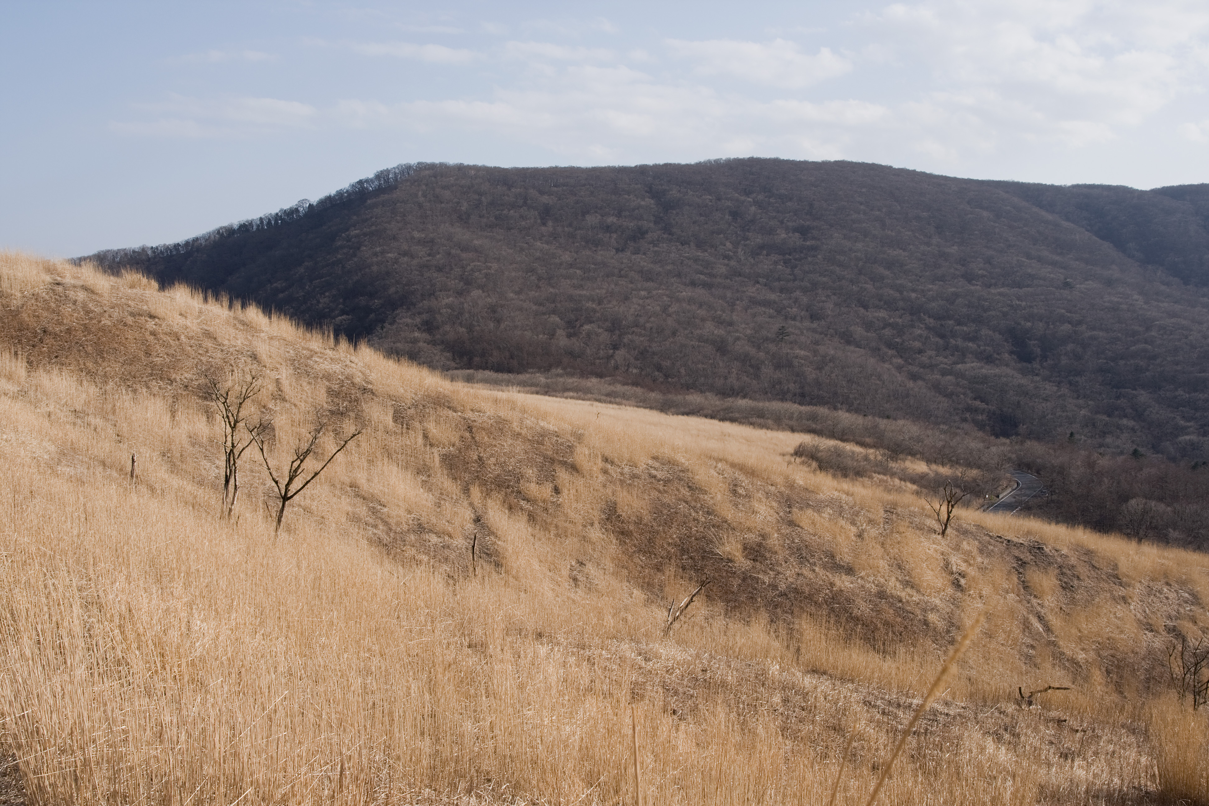 Mt.Mikuni as seen from Mt.Teppoginoatama, Mts.Tanzawa, Japan.